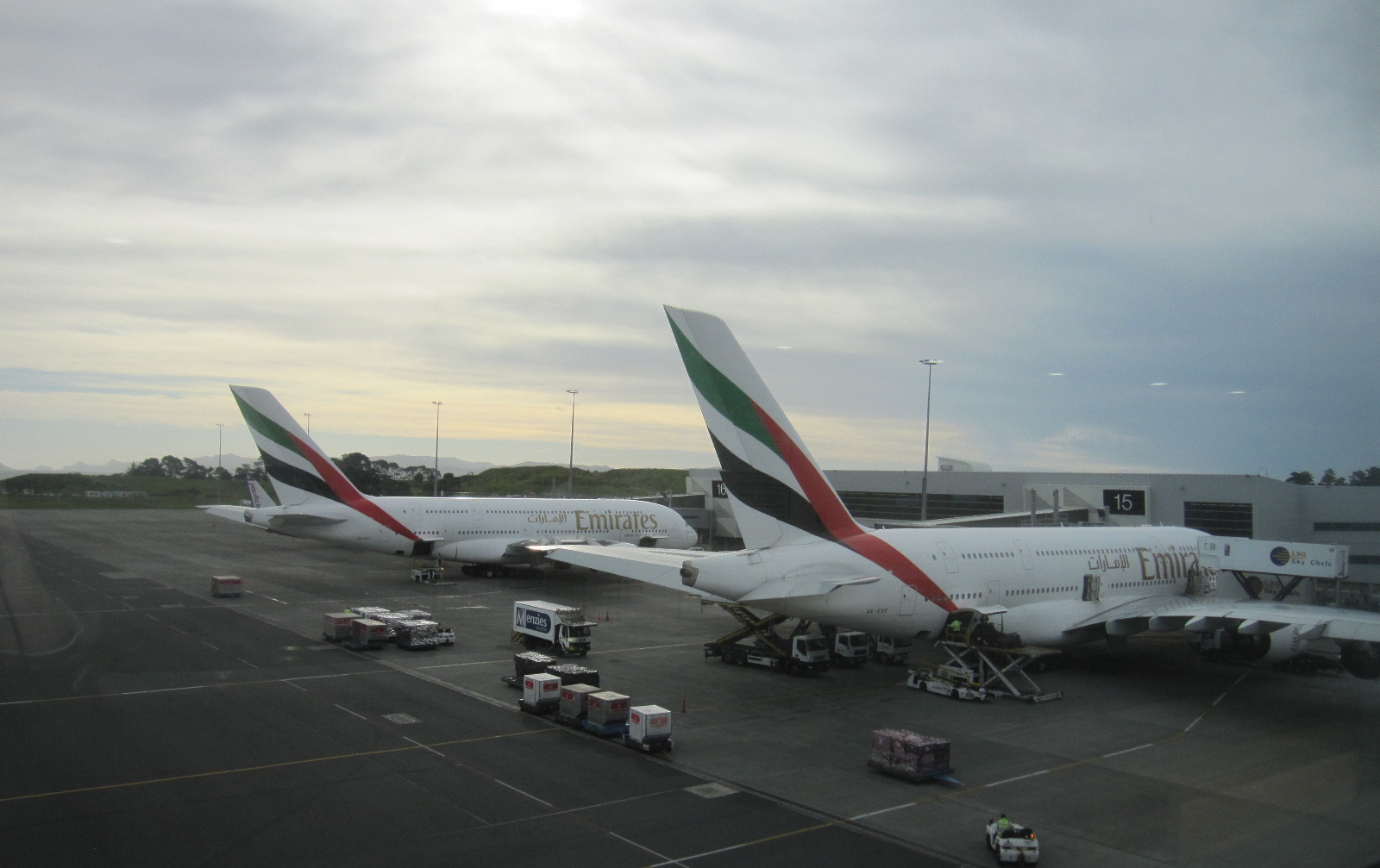 Auckland now has 3 Emirates A380s together everyday